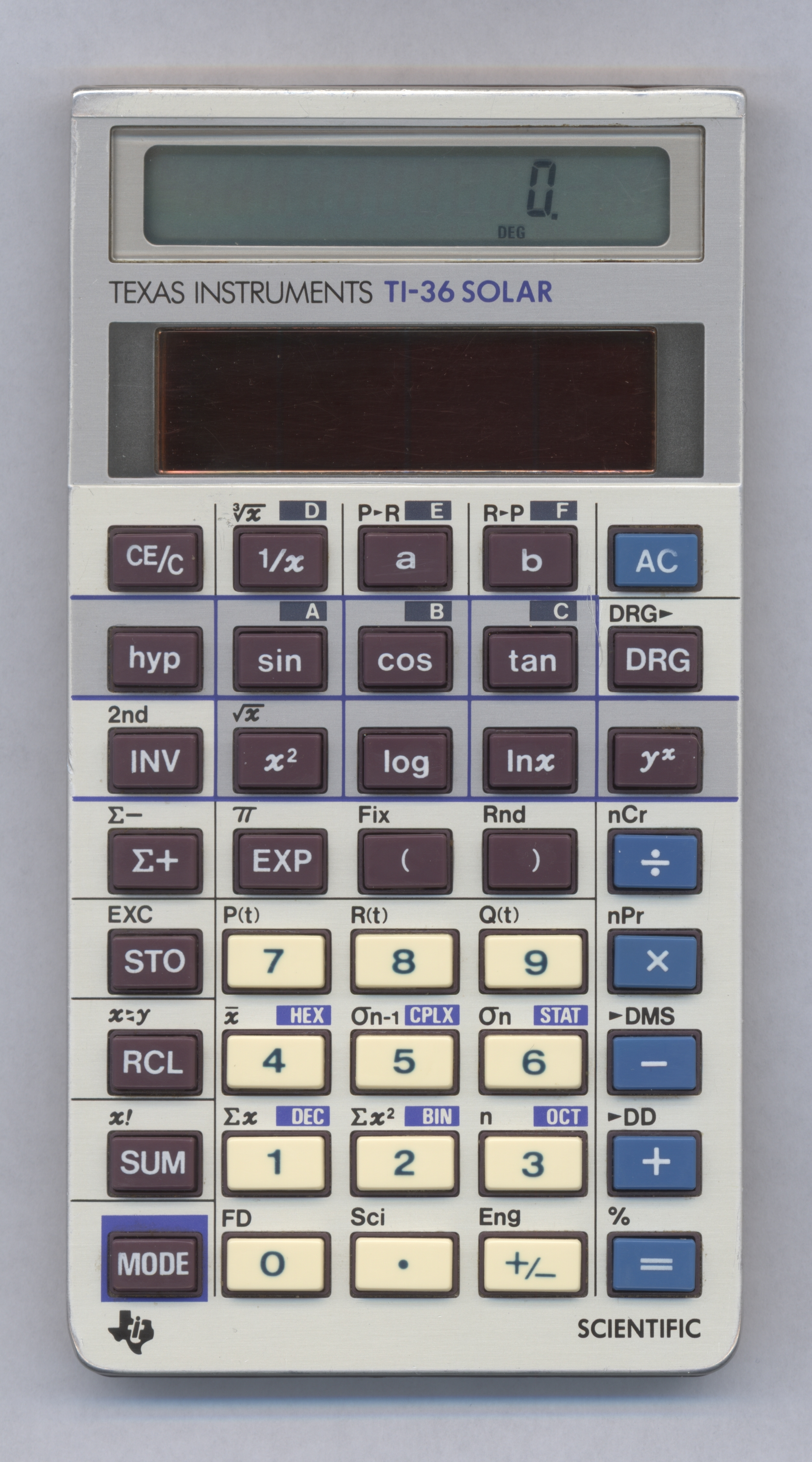 A pocket calculator model TI-36 Solar from Texas Instruments. Purchased in 1987.